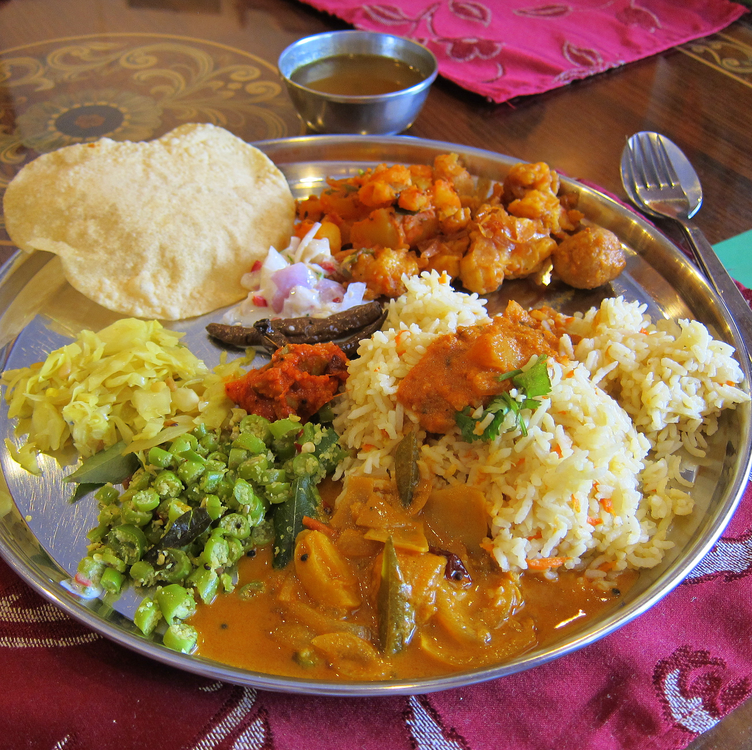 Vegan Indian Tali plate taken at Annalakshmi, a Vegetarian Indian restaurant at 39 Jalan Ibrahim, Johor Bahru, Malaysia.